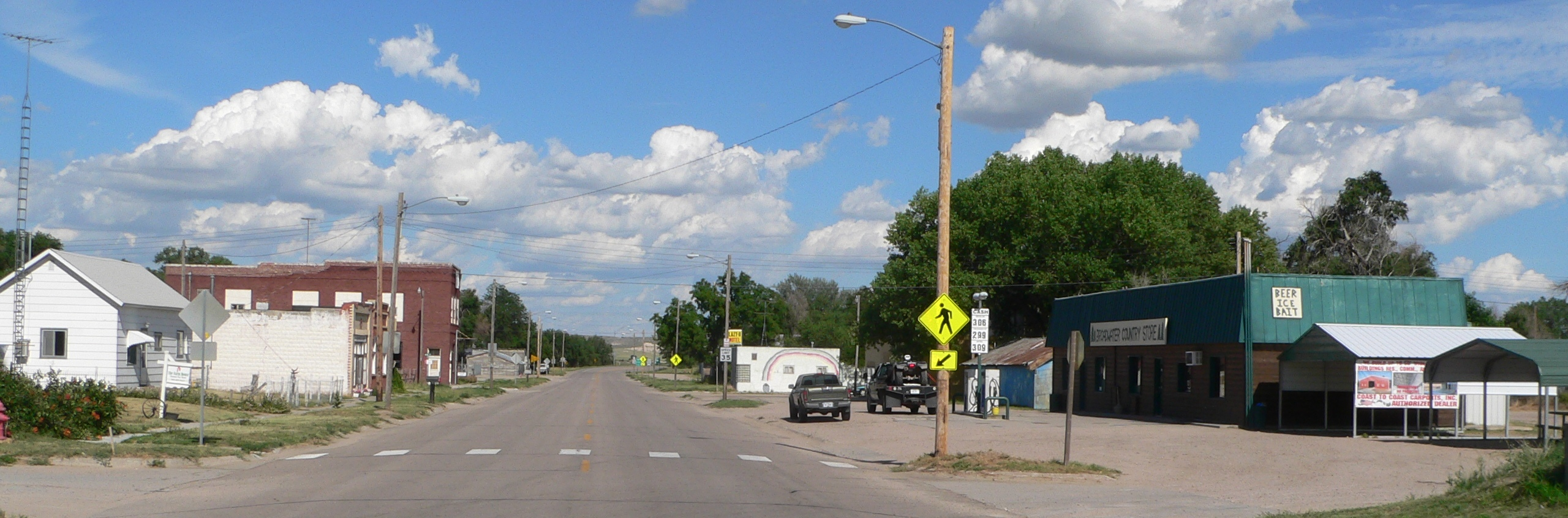 Downtown Broadwater, Nebraska: Guthrie Street (U.S. Highway 26) looking east from about Main Street.